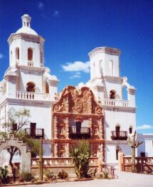 Mission San Xavier del Bac, Arizona. Photograph taken August 2001 by Stephen Lea. This reduced image available for use under GNU Free Documentation Licence terms 13th January 2004